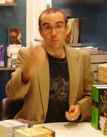 Julian Morrow from Chaser's War on Everything doing a signing of sorts at Books Kinokuniya. None of the books around him are by him. A simple digital snap of the action prompts him to ask for some "audience" participation. Of course, why not? Sadly it would turn out to not be of the kind of stuff they could use in the final broadcast.